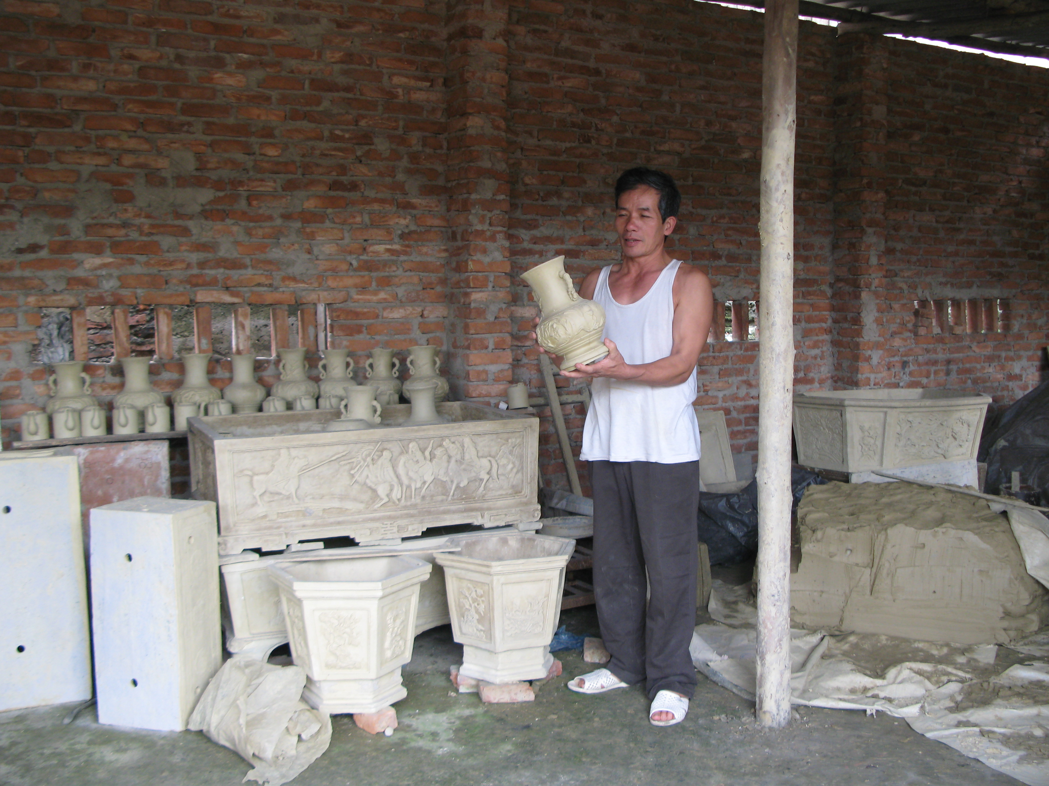 The pottery of Tho Ha Village, Bac Giang province